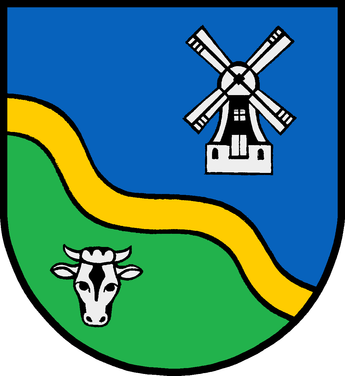 Coat of arms of the municipality Goldebek in Schleswig-Holstein, Germany.